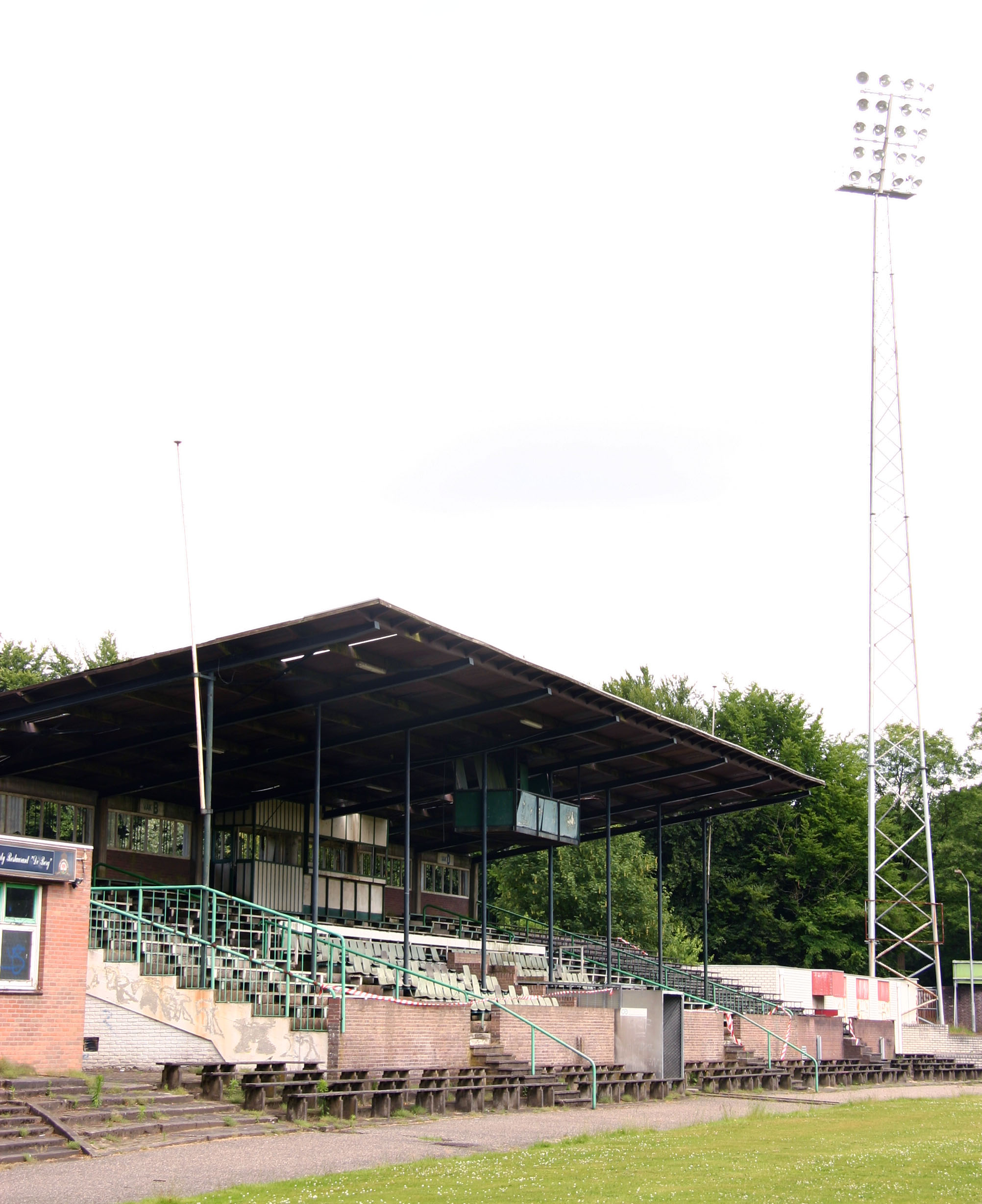 Abandoned stadium "Wageningse Berg" in Wageningen, The Netherlands.